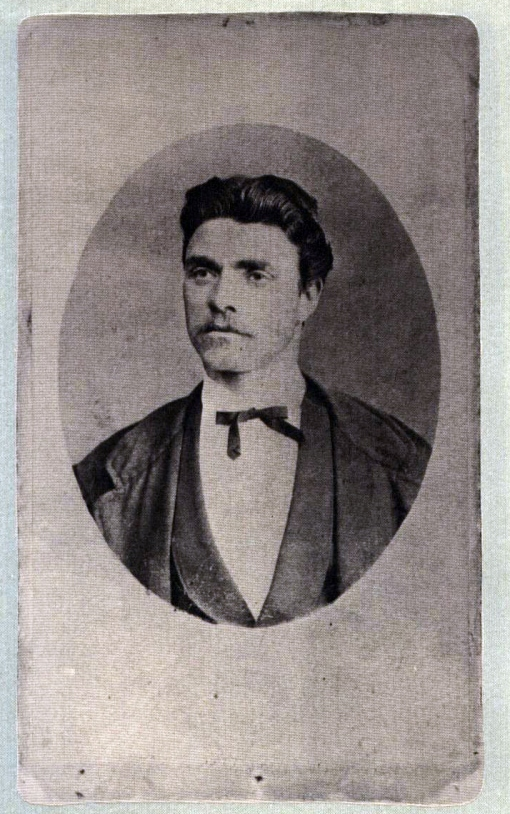 A Photo of Vasil Levski, 1872, Bucurest